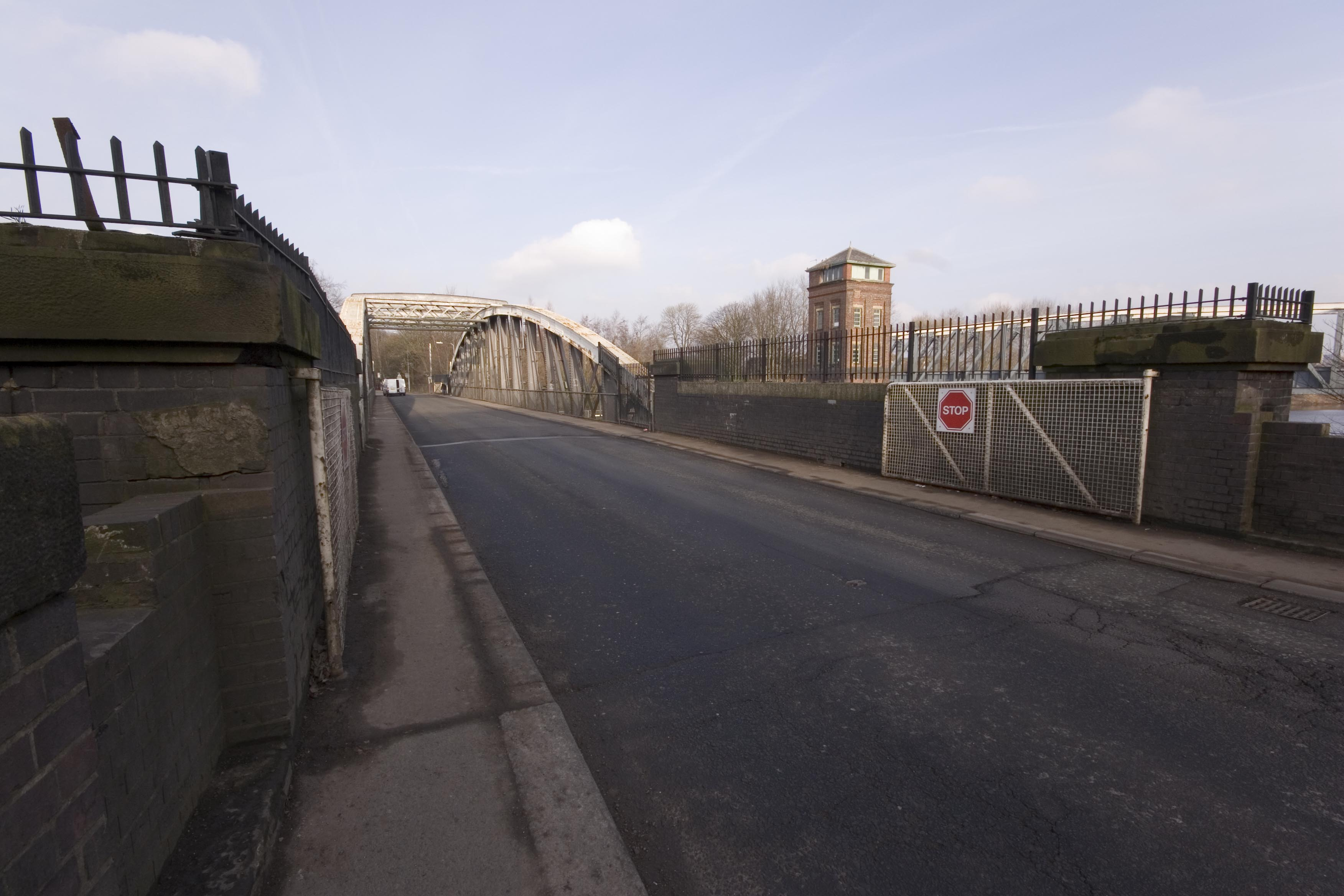 Barton Road swing bridge, looking north